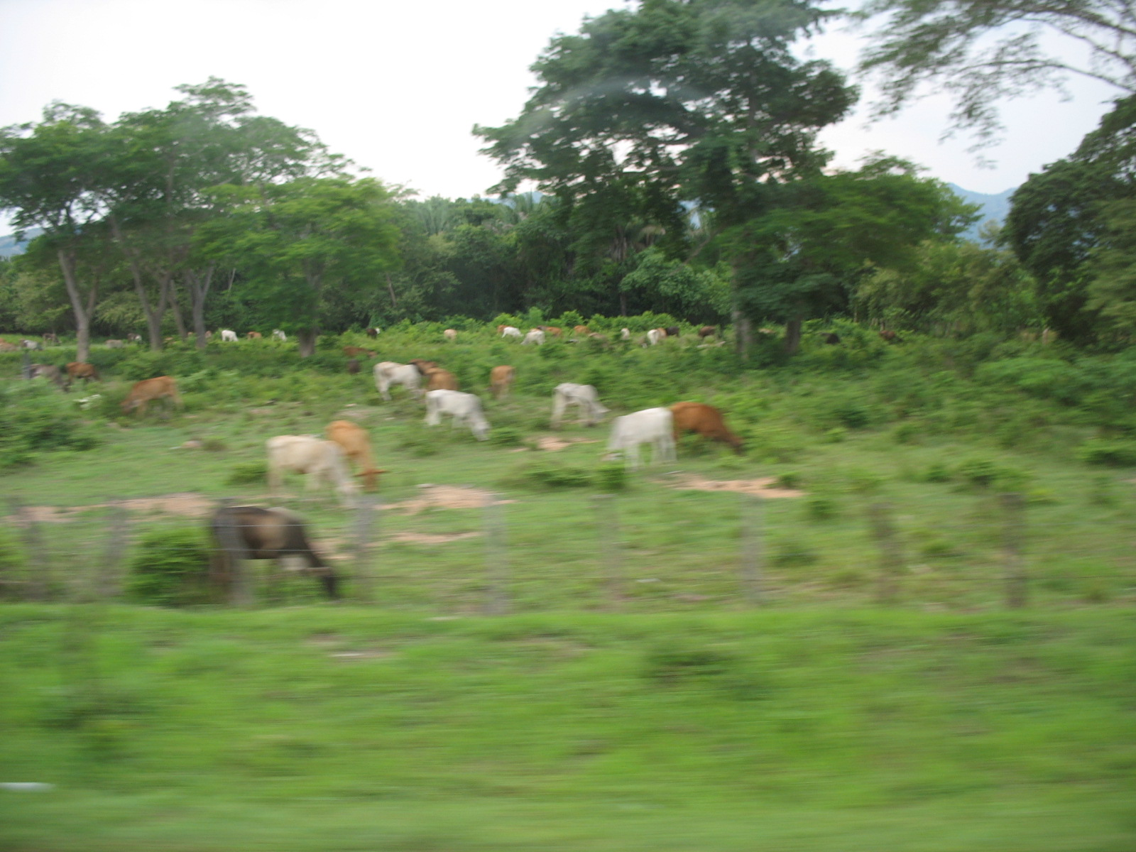 Cattle near Valledupar